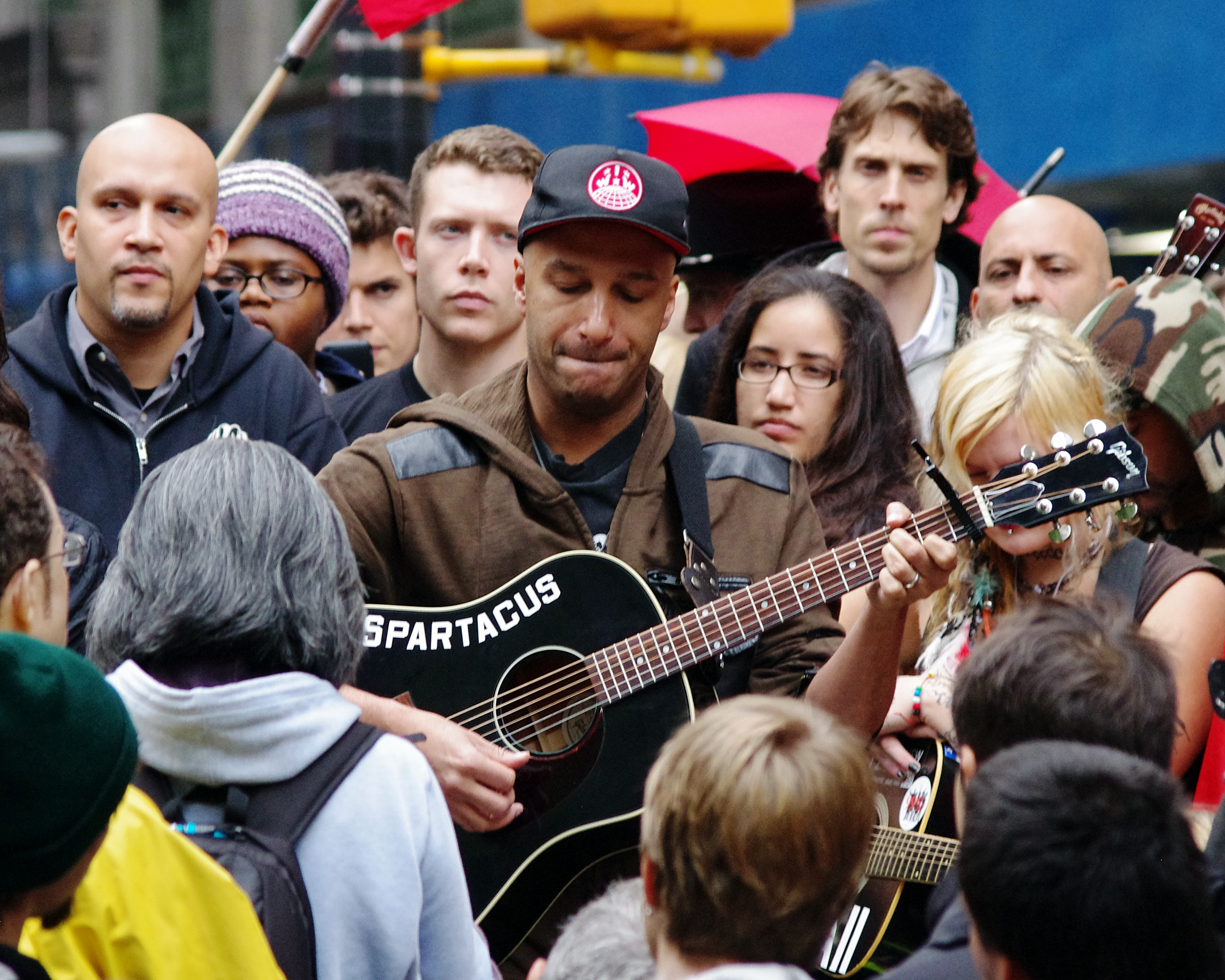 Rage Against the Machine guitarist Tom Morello playing a set on Day 28 of Occupy Wall Street in New York.